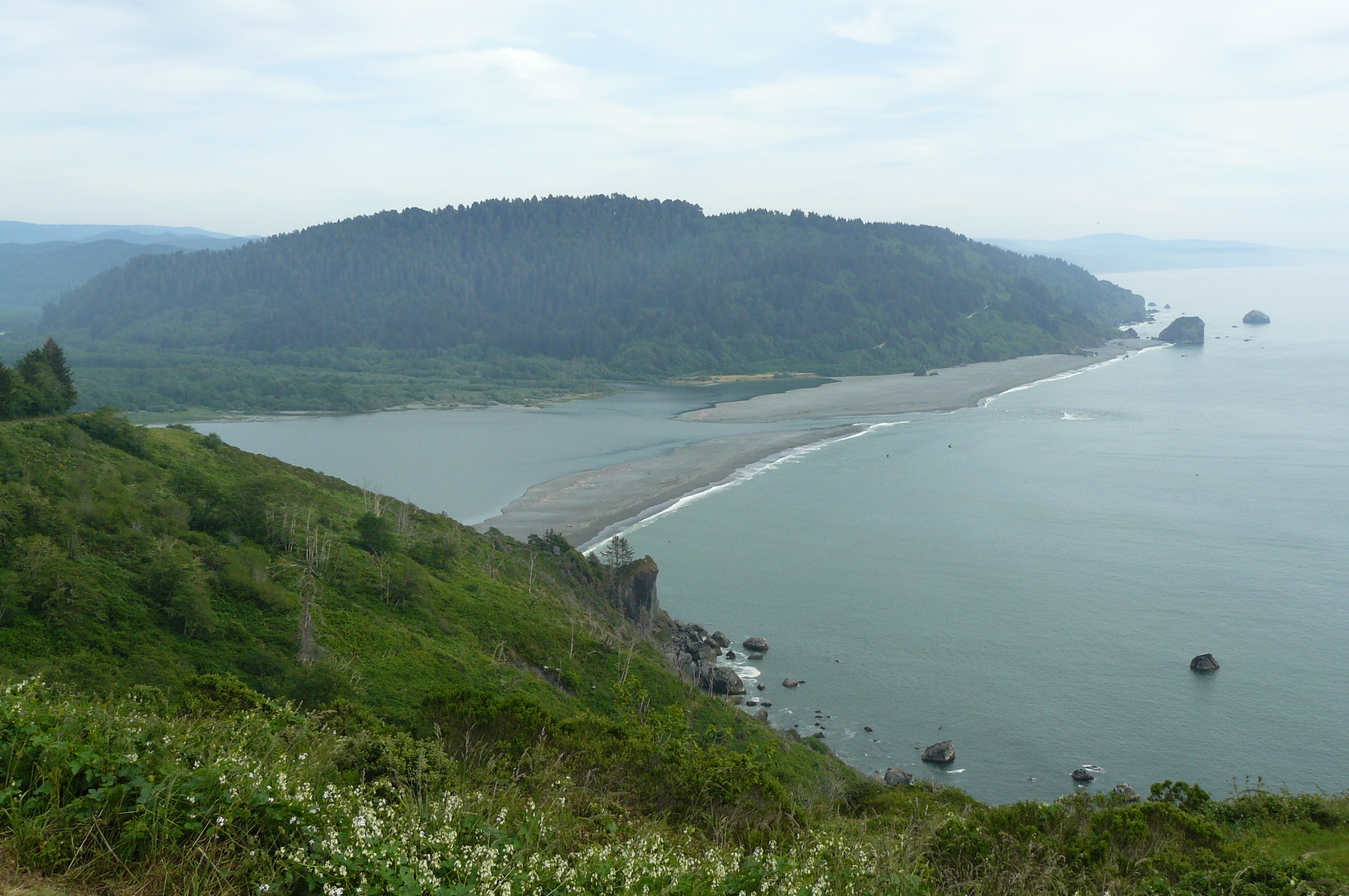 Klamath River meets ocean. Seen from Klamath River Overlook to the south, part of Redwood National Park